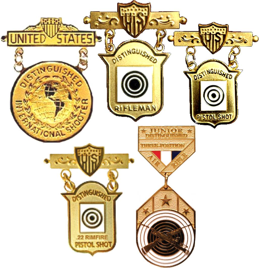 Image of the U.S. Civilian Marksmanship Program's Distinguished Shooter Badges